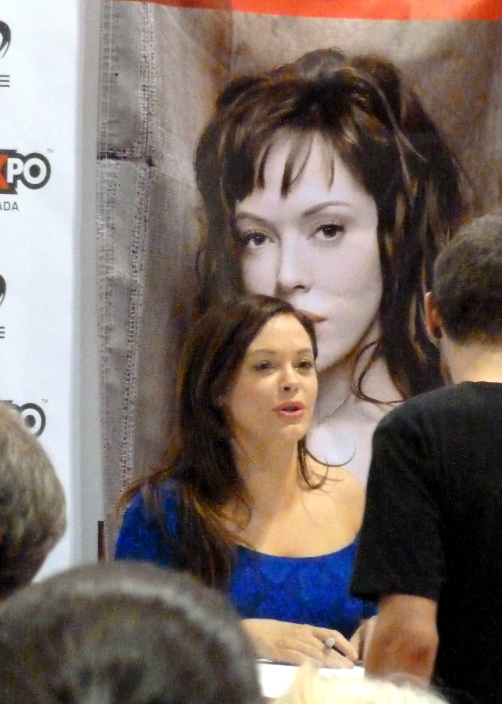 Fan Expo Canada in Toronto in 2012.